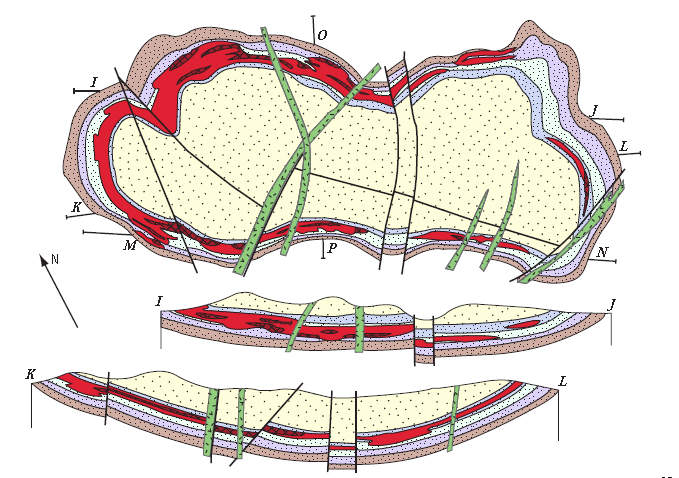 Udokan geologic map and cross sections